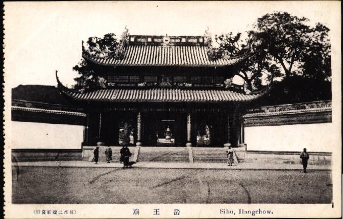 Postcard of West Lake